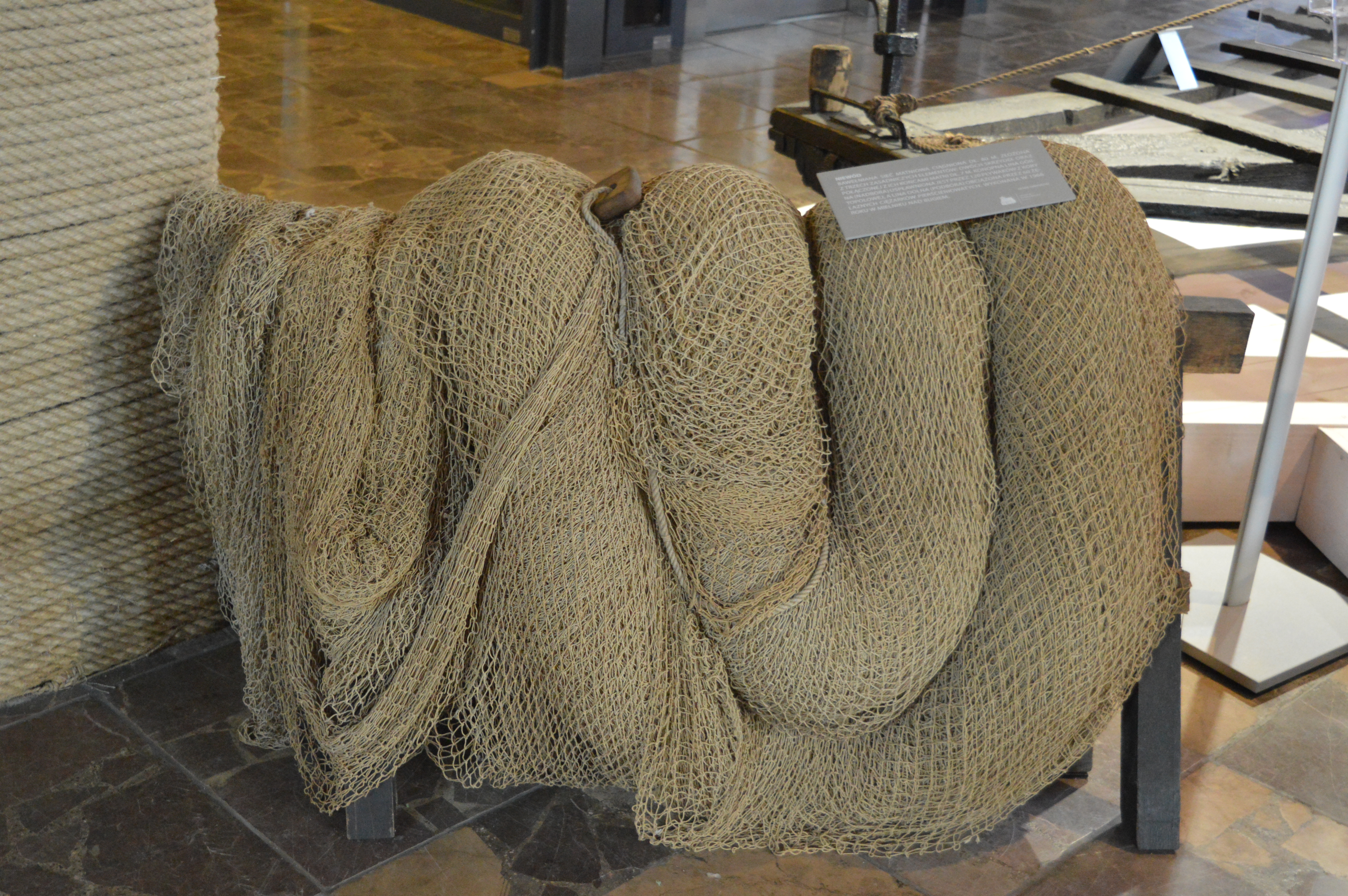 Sein (or dragnet) - fishing net. Made in Mielnik (near Bug river) in 1966. Net is 80 metrs long, with 120 floaters and 60 iron weights. Exhibit in Museum of Fishery in Hel, Poland.